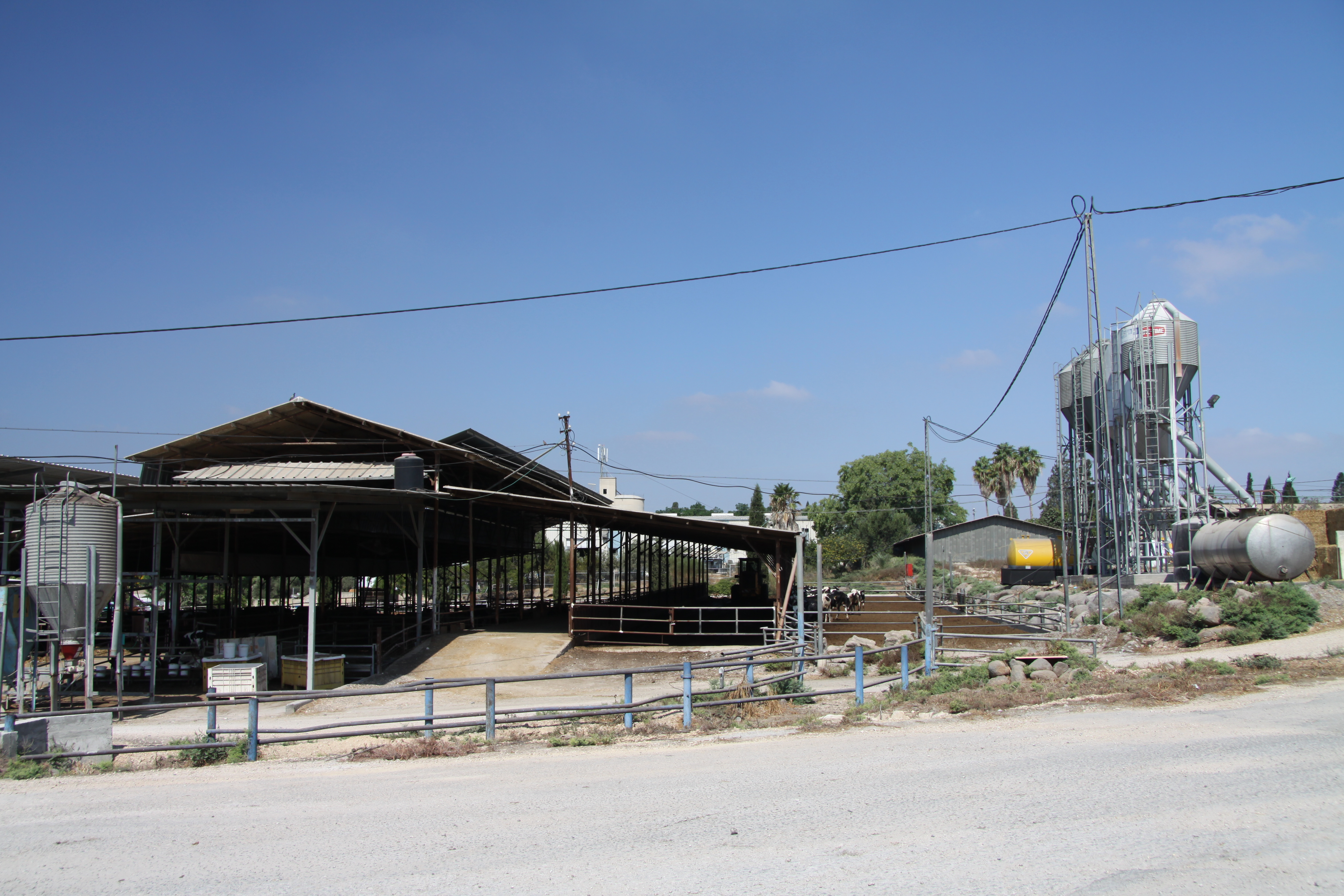 Cow-house in Kibuttz Geva in Israel - Google Maps - Google Earth